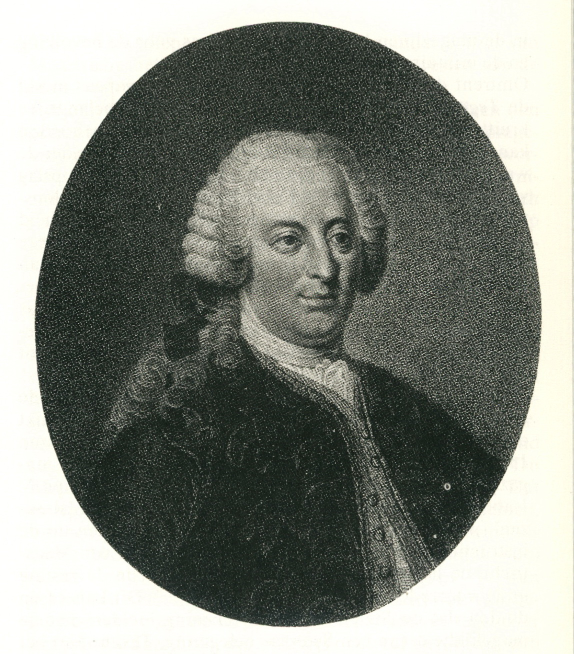 Portrait of Hobbe van Aylva (1696-1772), military governor of Maastricht, 1749-'72.